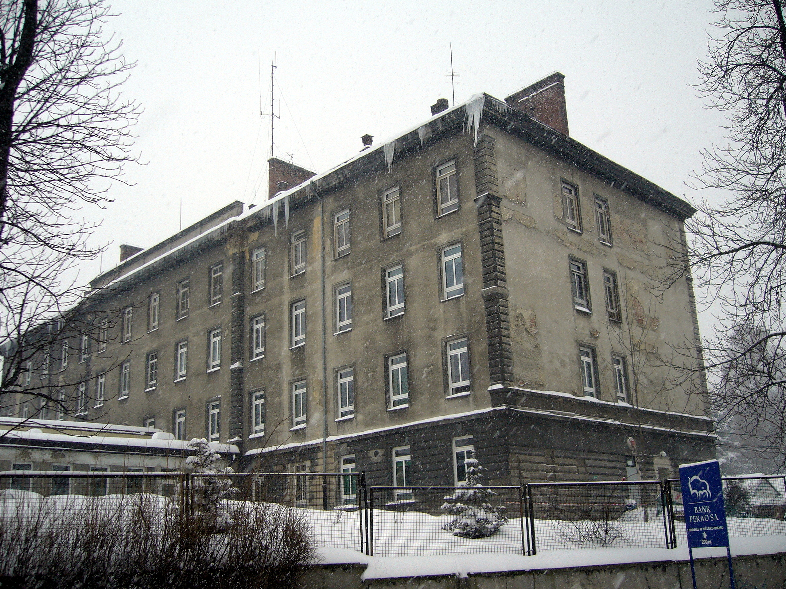 Pediatric hospital and former barracks in Bielsko-Biała, Poland